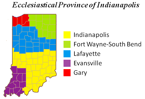 Ecclesiastical Province of Indianapolis in the Catholic Church encompasses the entire state of Indiana, USA.